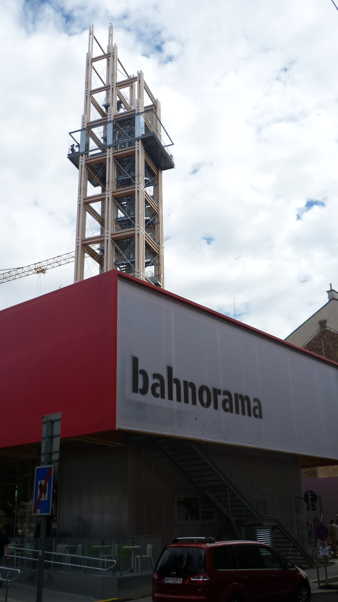 Exhibition pavilion and wooden observation tower, both called "Bahnorama", at Favoritenstrasse 51 at Vienna's 10th district enable visitors to get informations on the procect and the construction work of Vienna's new central train station, called Hauptbahnhof. Opened in August 2010, the temporary buildings are planned to be used here for at least four years.